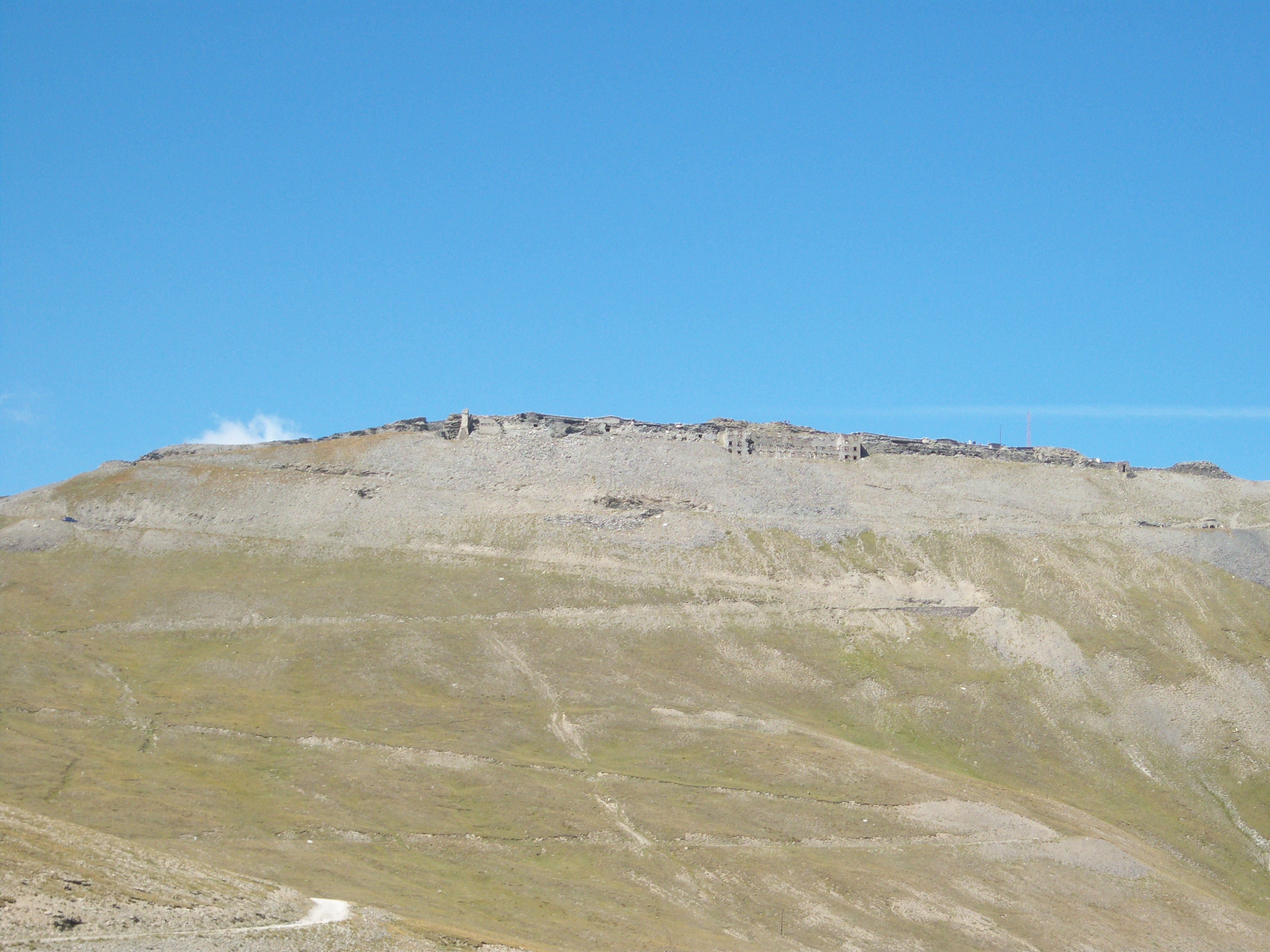 Wiew of Jafferau's Fort coming from Colle Basset